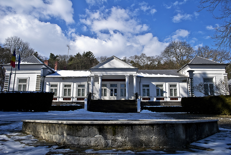 Rosetti-Tescanu mansion in Tescani, Berești-Tazlău commune, Bacău County, Romania